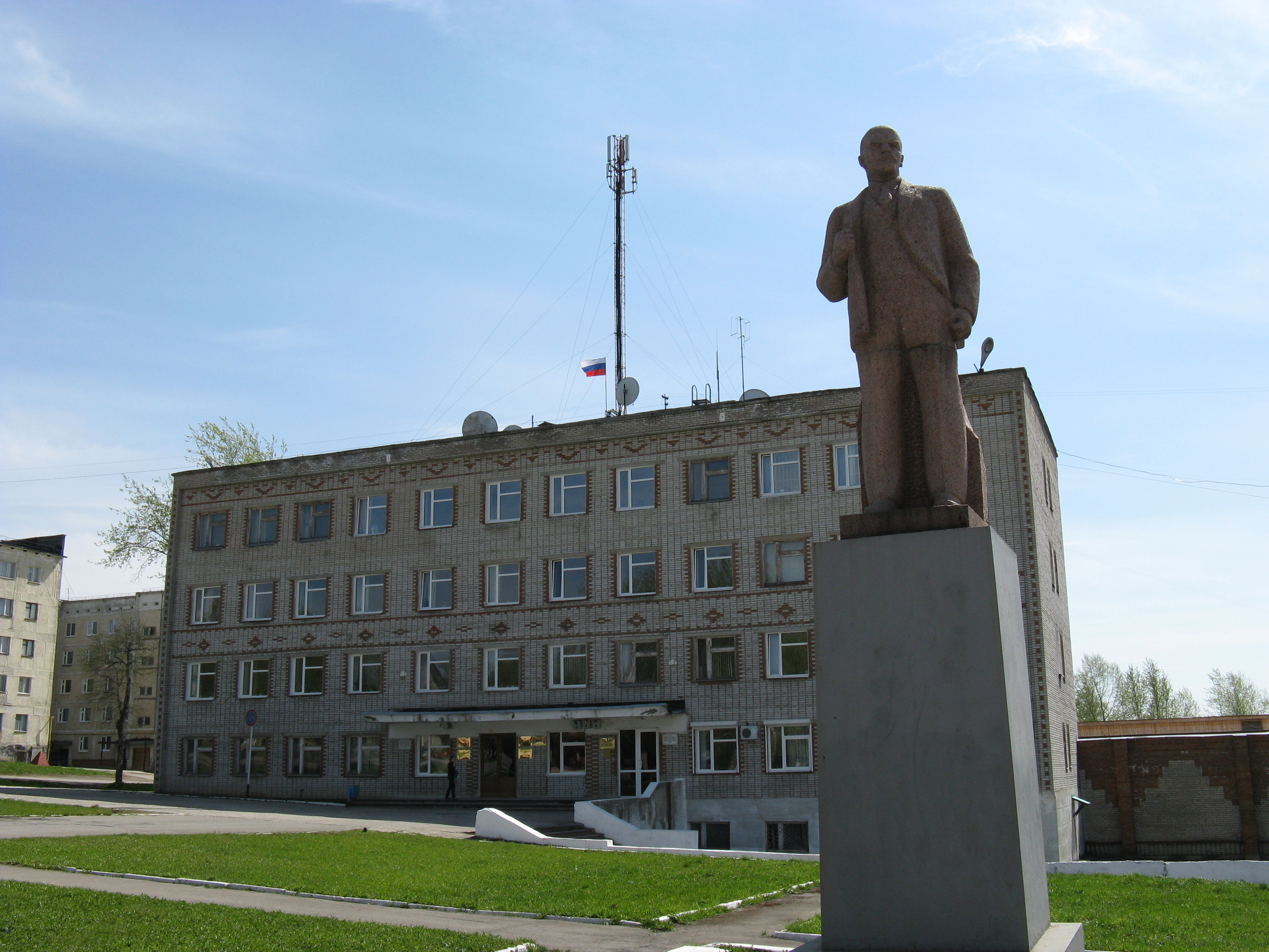 Aleksandrovsk City Administration building in Perm Krai